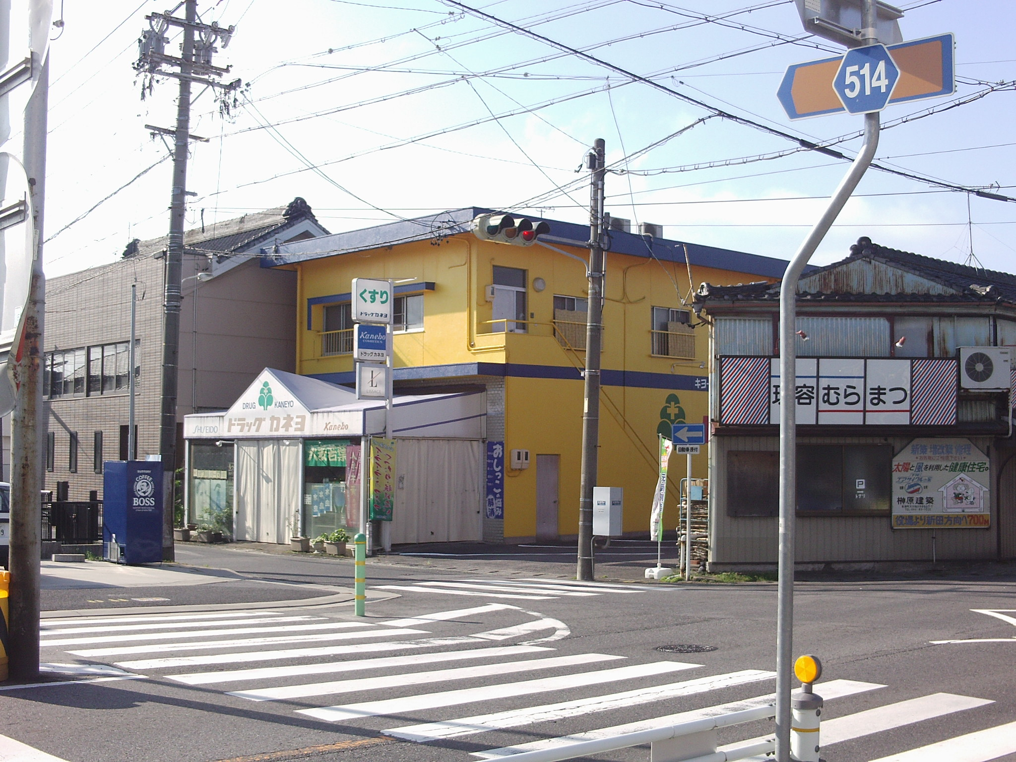 Endin point of Aichi prefectural road No.514 in Ogawa, Higashiura-cho, Chita-gun, Aichi.